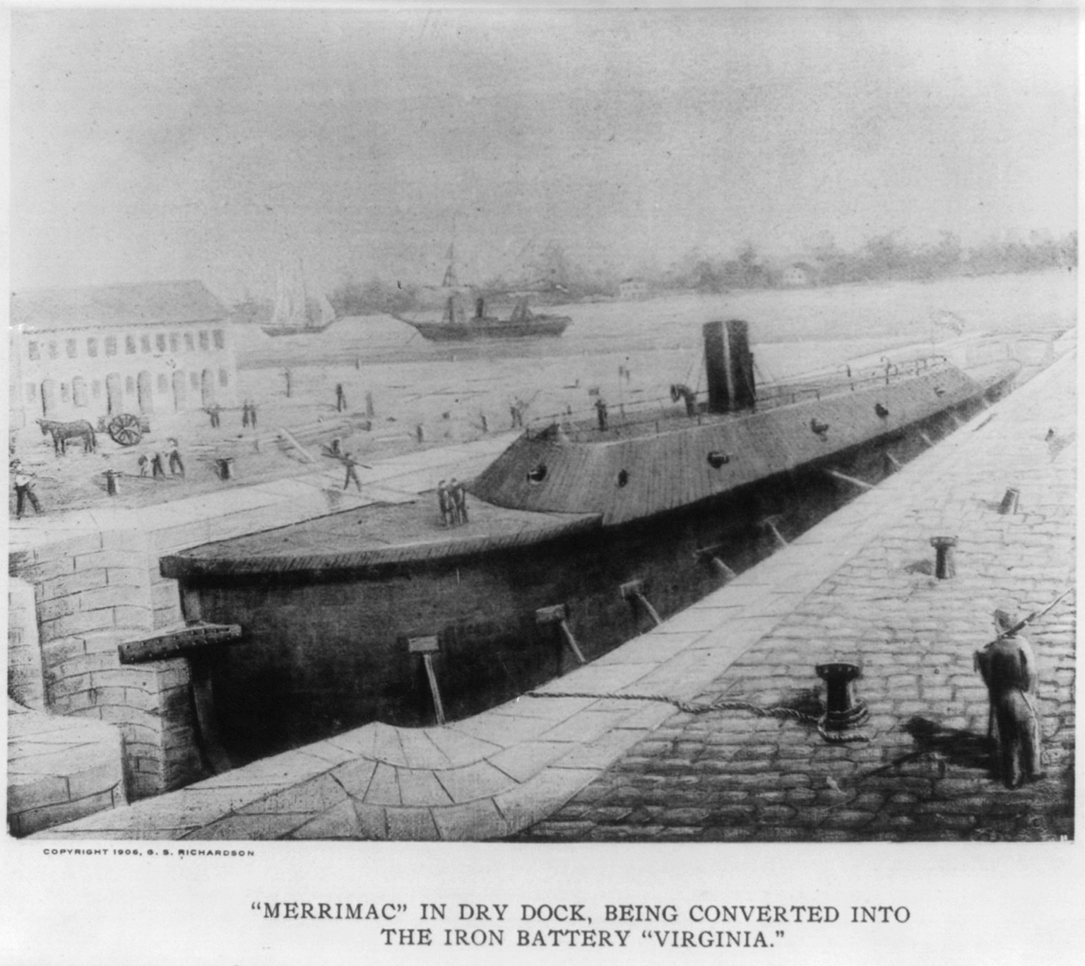 Title: MERRIMAC in dry dock, being converted into the iron Battery VIRGINIA Abstract/medium: 1 print : photo-lithograph.